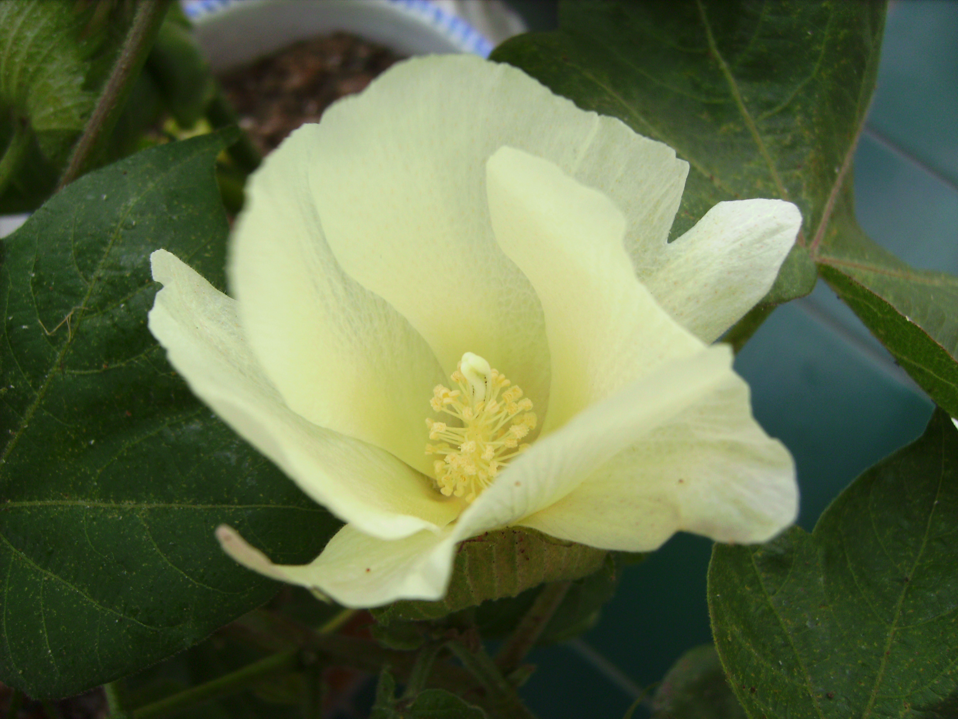 Cotton plant (Gossypium hirsutum) opened flower in Barcelona